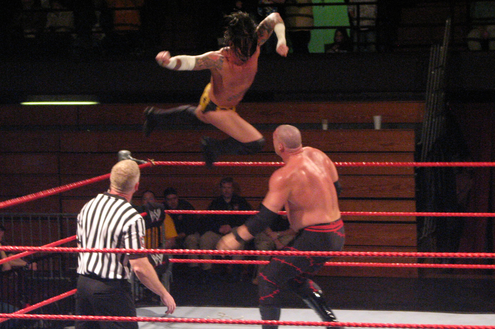 CM Punk executes a springboard clothesline on Kane. Taken February 21, 2009 at the Viking Hall in Bristol, TN.